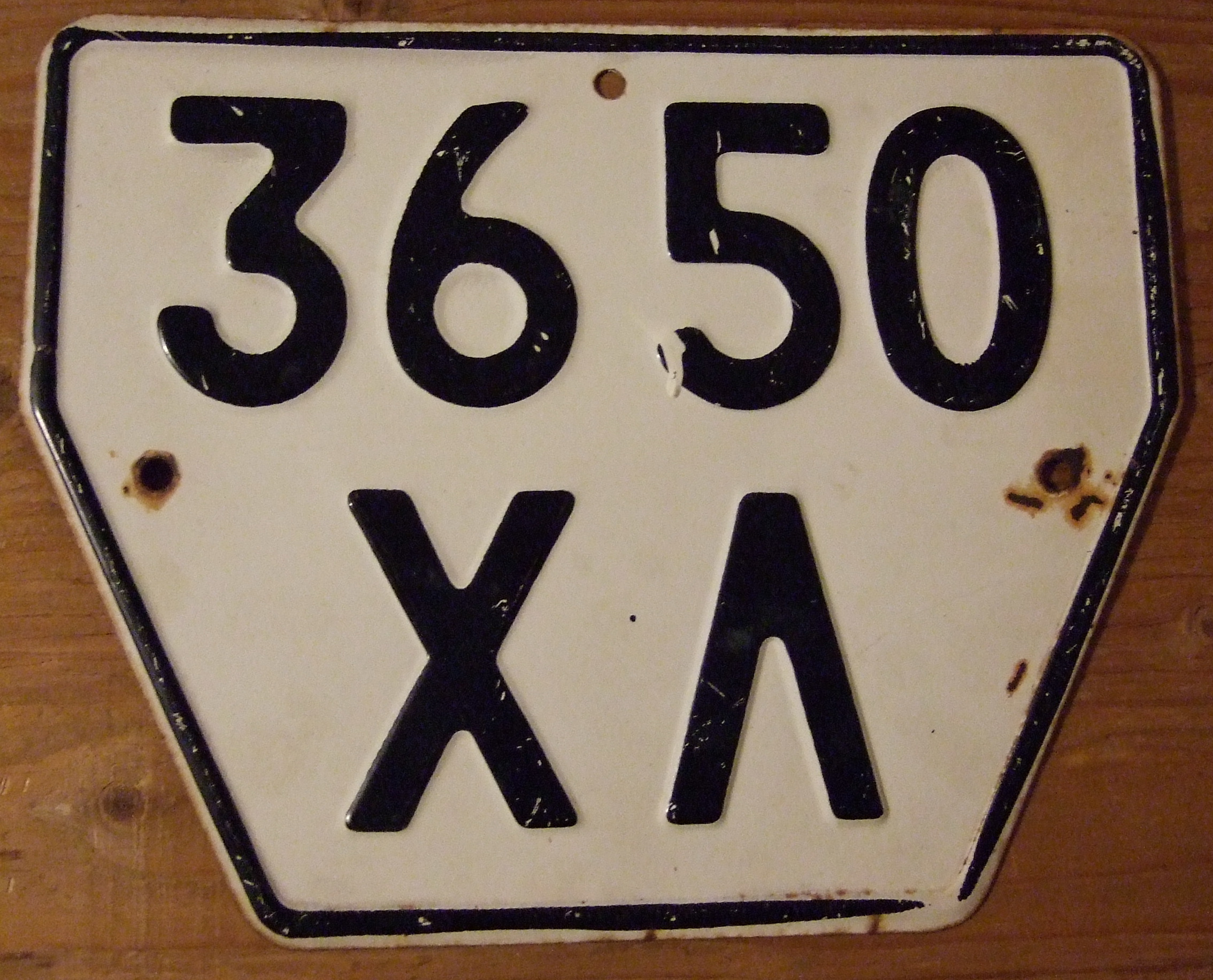 A 1980 series USSR tractor trailer license plate from Khmel'nitskiy Ukraine.